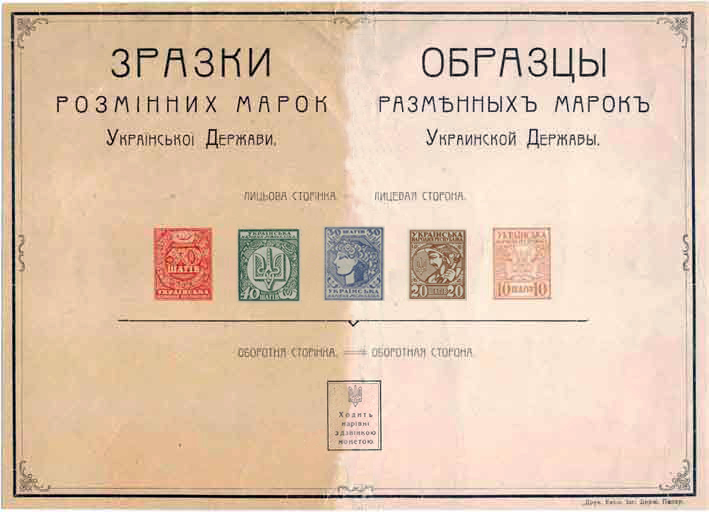 Samples of stamps-money of the Ukrainian People's Republic, 1918